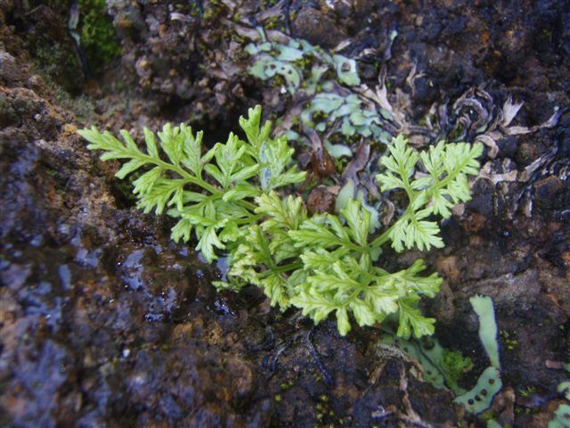 A photograph of the parsley fern (Anogramma ascensionis) provided by Olivia Renshaw of the Ascension Island Government Conservation Department